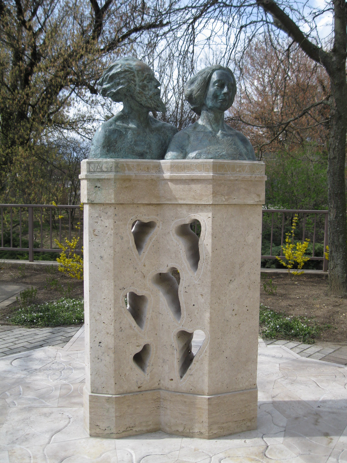 Laura Kriesch and Sándor Nagy (painter) sculpture in Gödöllő. Creator: Pál Szinvai.